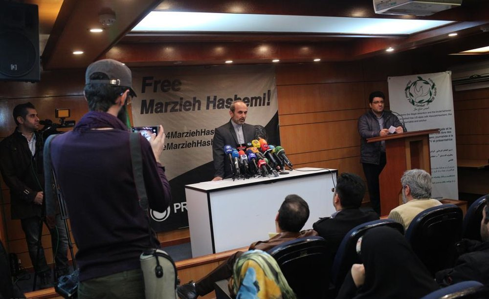 Peyman Jebelli